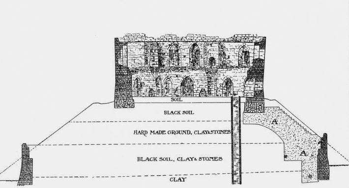 A cross-section of Clifford's Tower in 1903